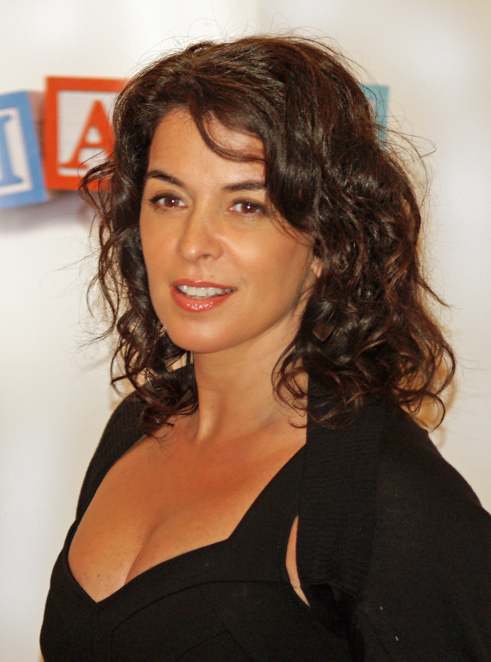 Annabella Sciorra at the premiere of Baby Mama at the 2008 Tribeca Film Festival.